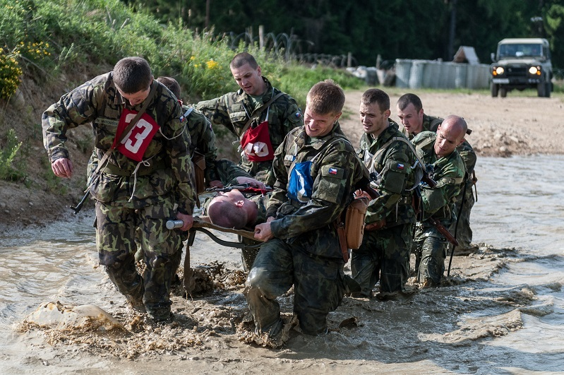 Selection of the 43rd Airborne Battalion (CZE), litter carry